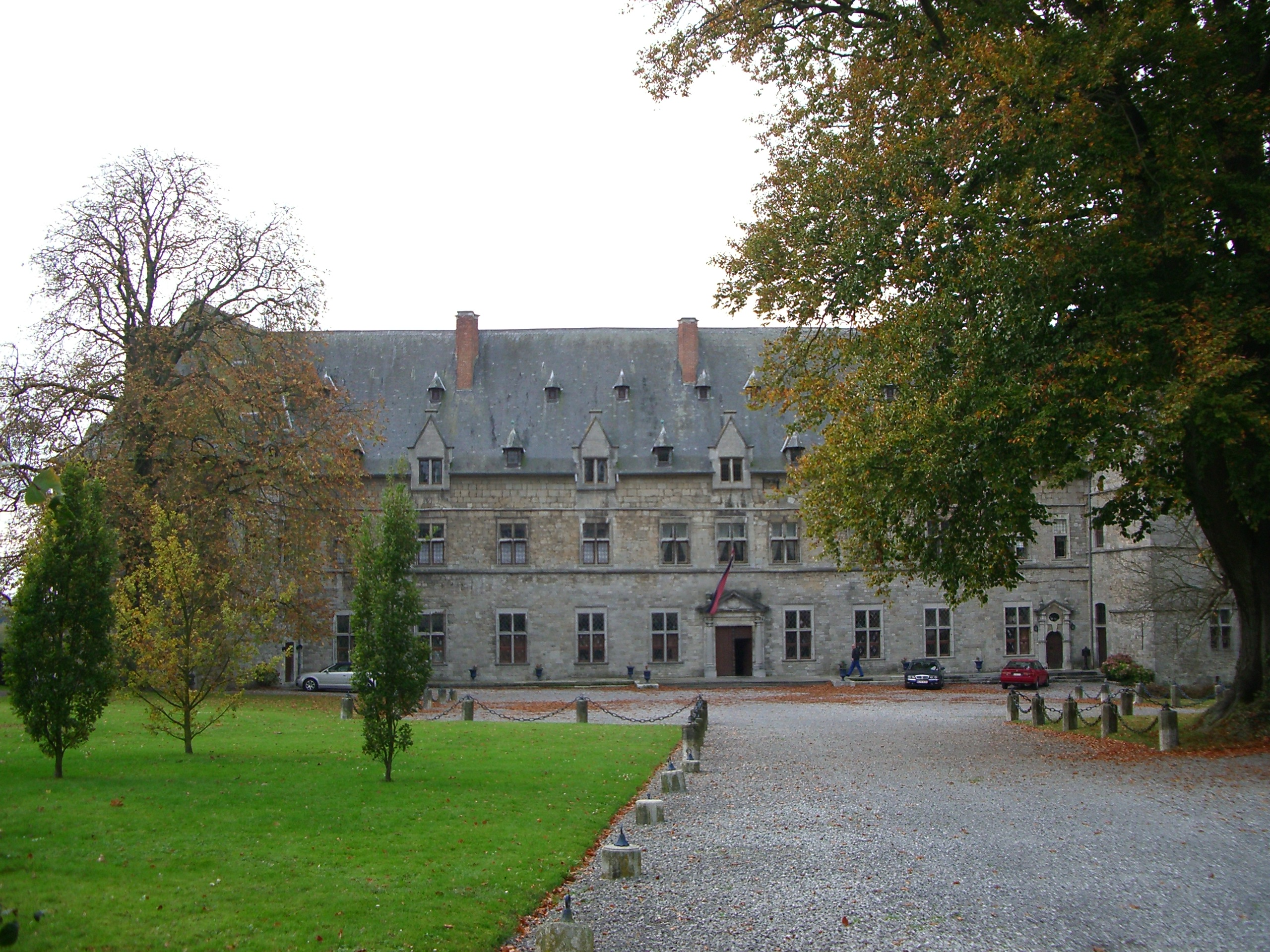 Chimay's castle, Belgium